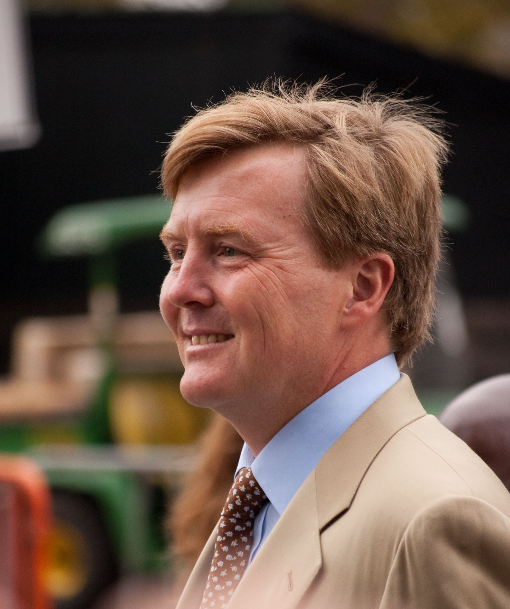 His Royal Highness the Prince of Orange in Battery Park City, Manhattan, on 9 September 2009.